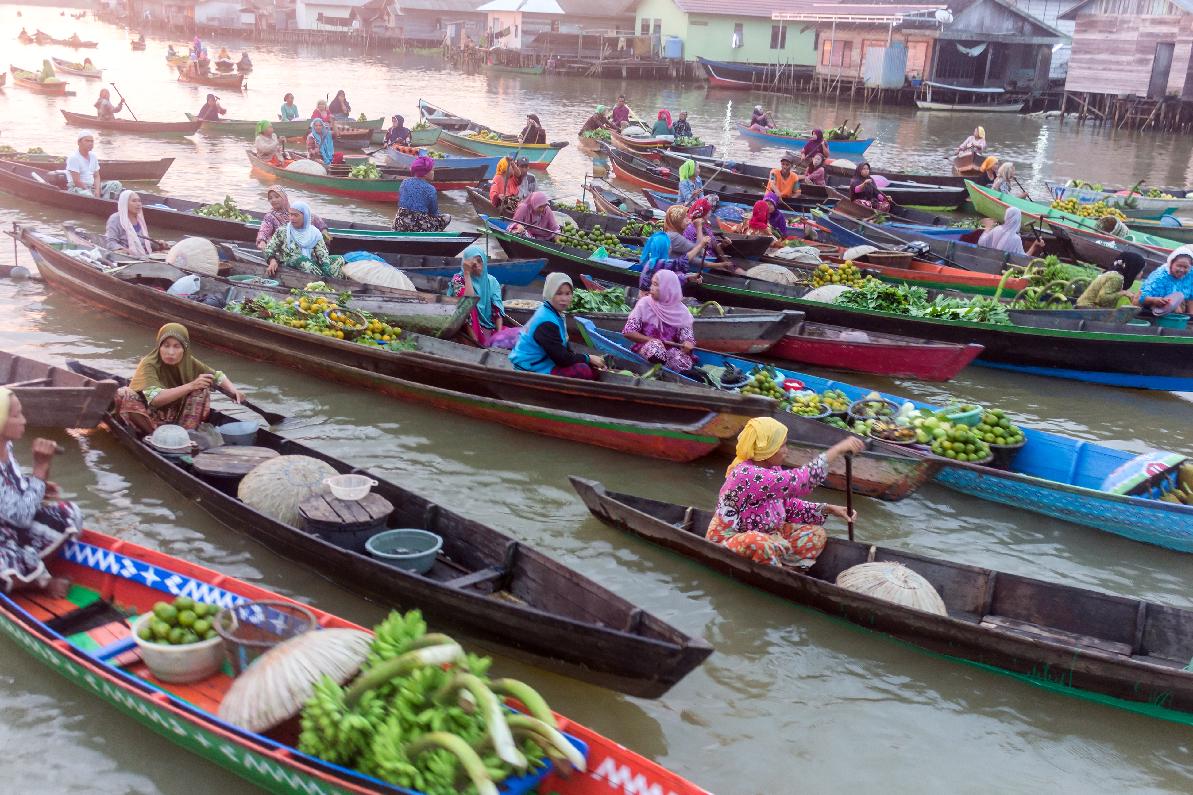 Lok Baintan Floating Market, Martapura, South Kalimantan, 2018-07-28.